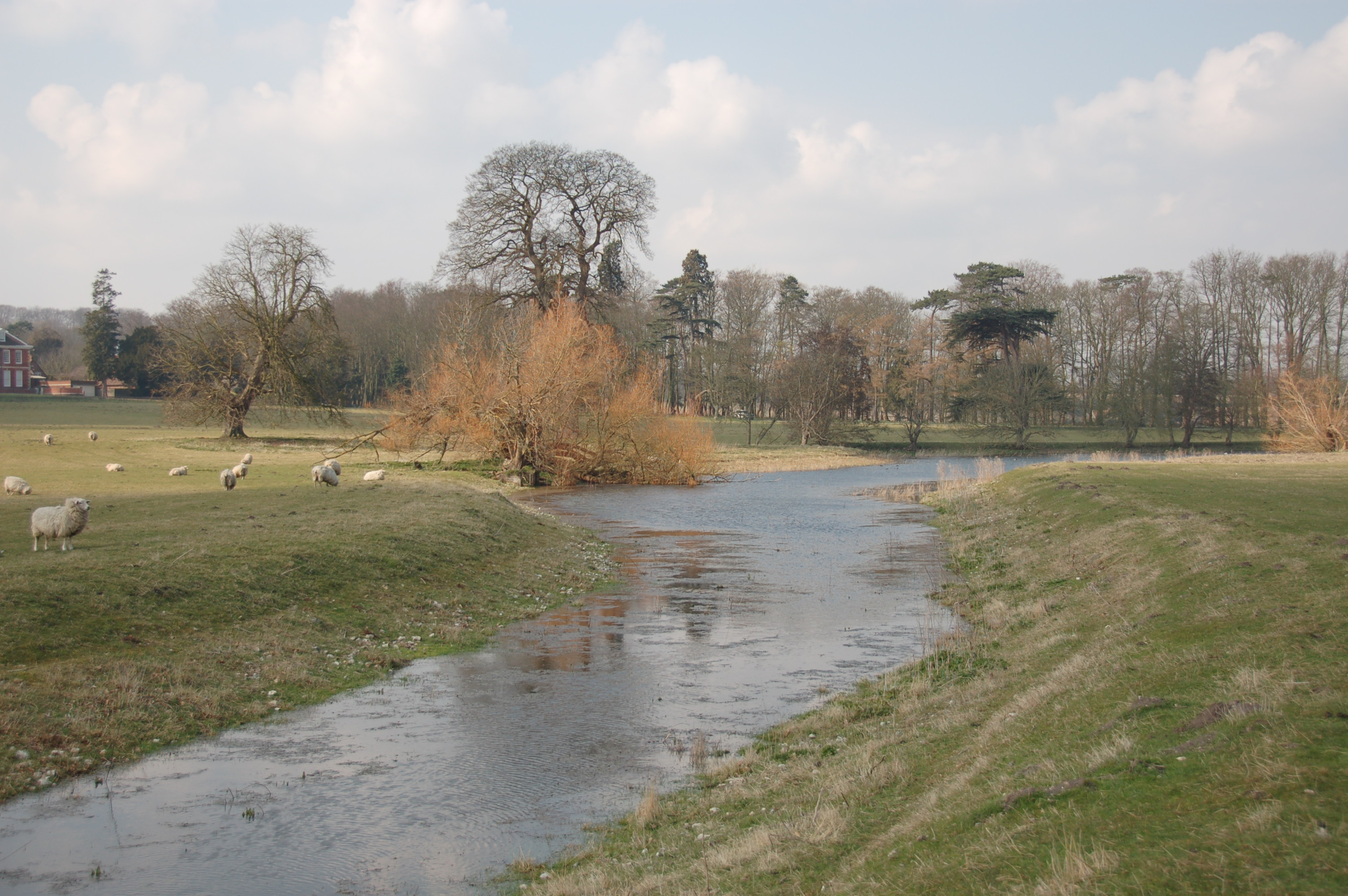 Description: Nailbourne at Bourne Park Date: 25th March